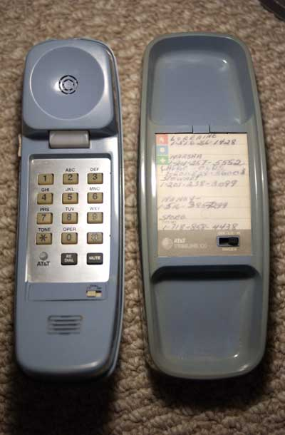 AT&T Trimline phone, made overseas in December 1986.